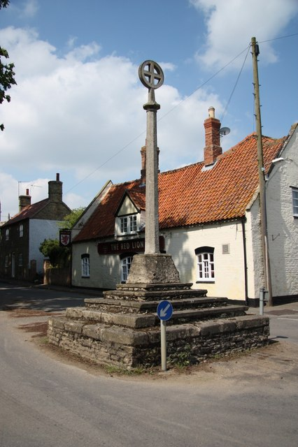 Digby Cross. Grade II listed Medieval village cross at Digby.